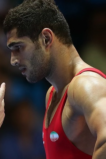 Meisam Mostafa-Jokar